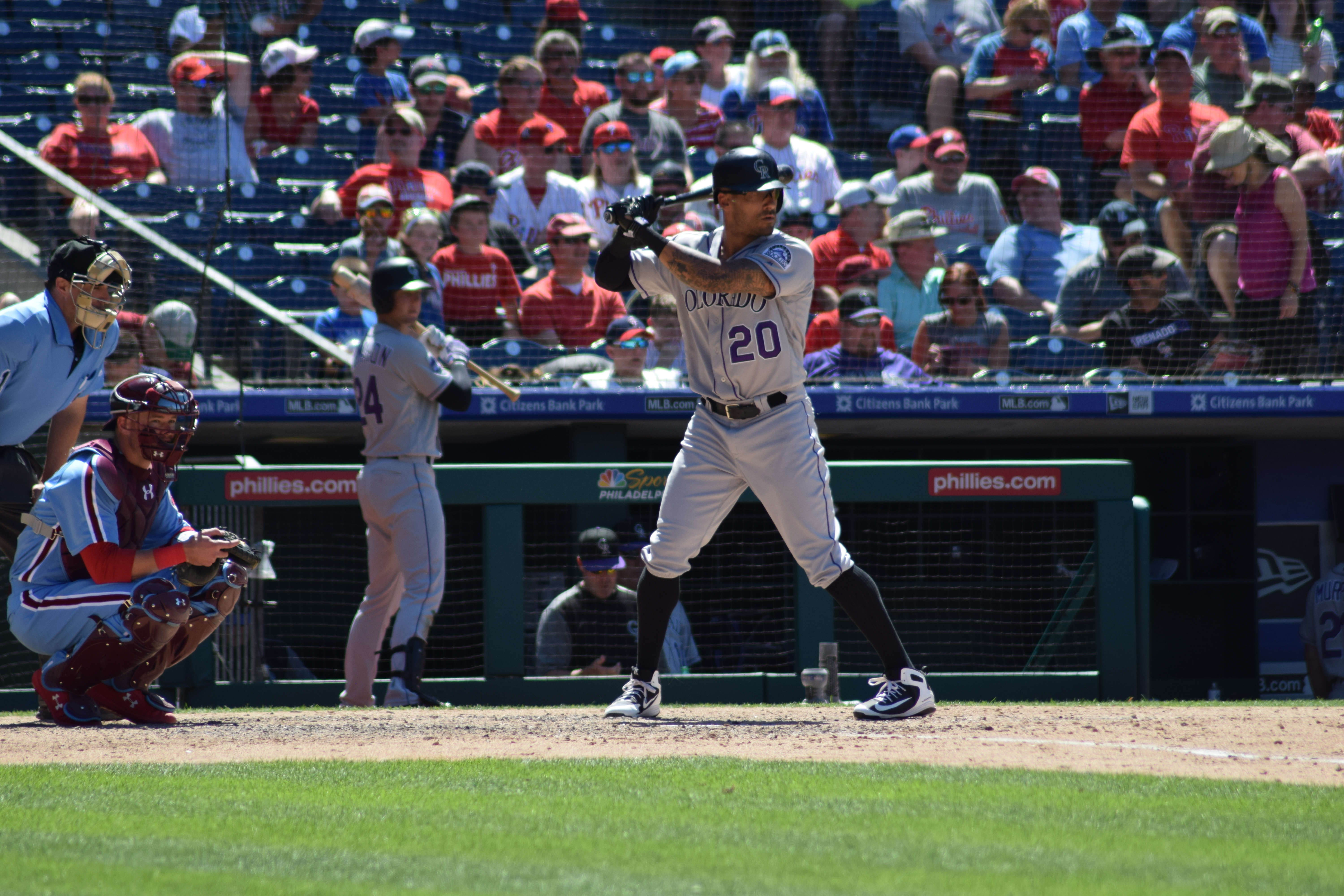 Andrew Knapp and Ian Desmond